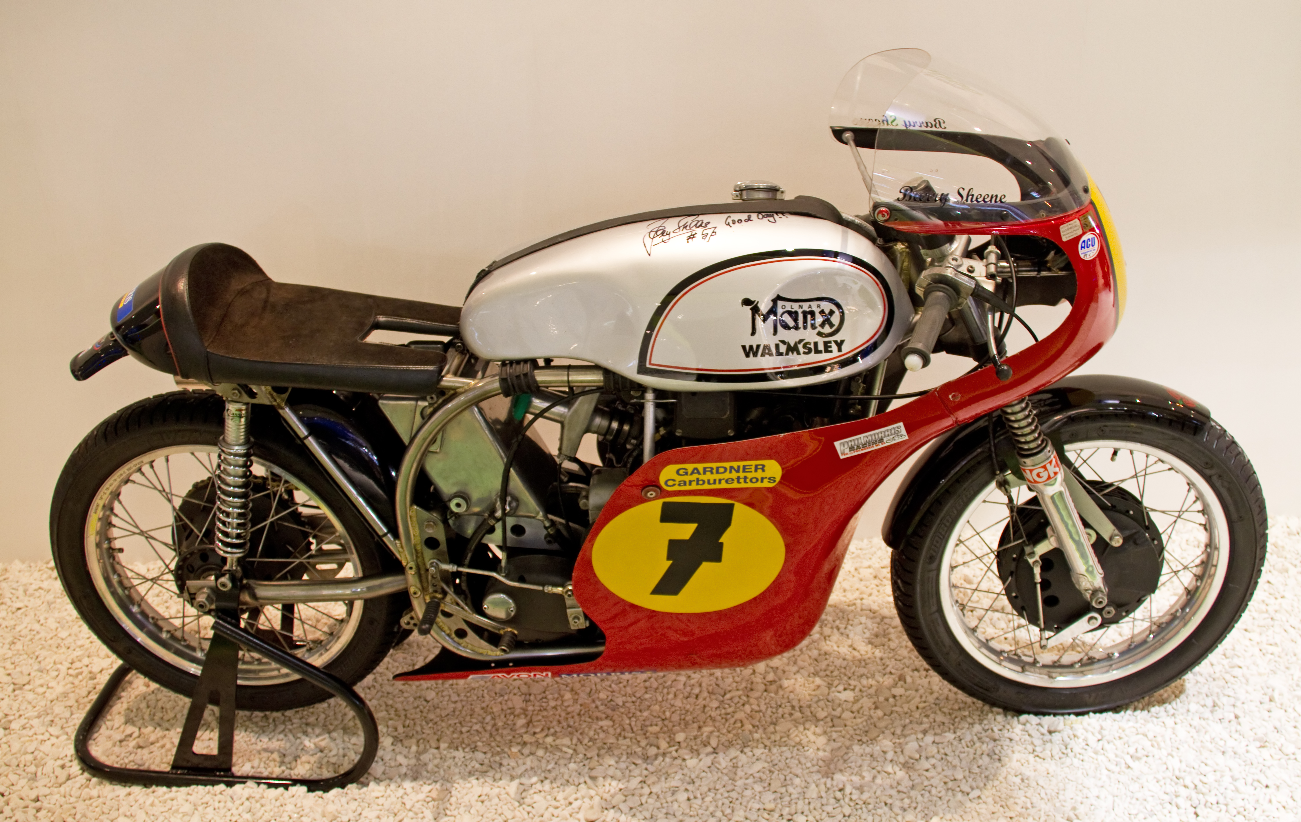 Barry Sheene Molnar Manx Norton 2